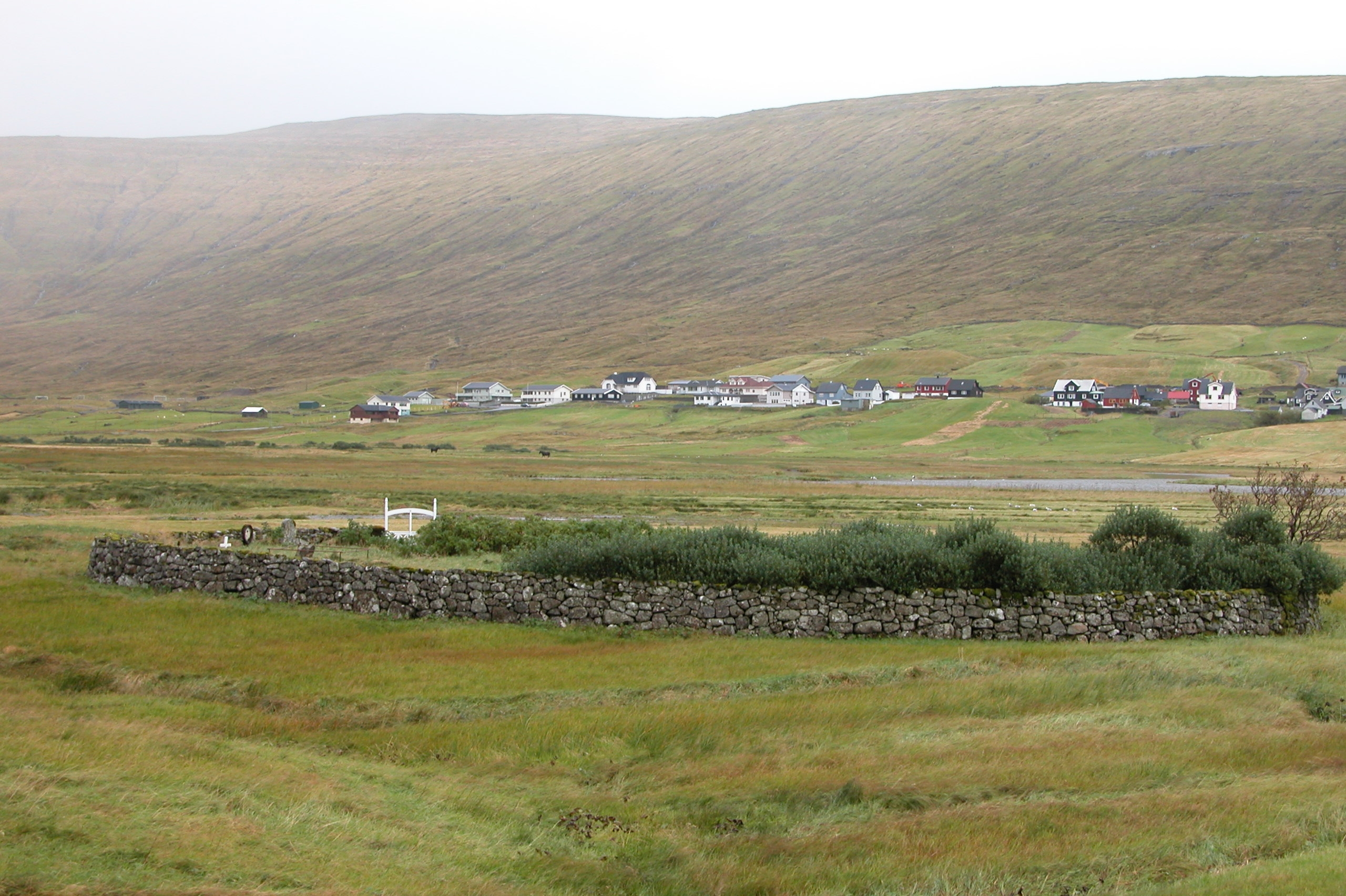 Churchyard of Hvalvík on Streymoy, Faroe Islands